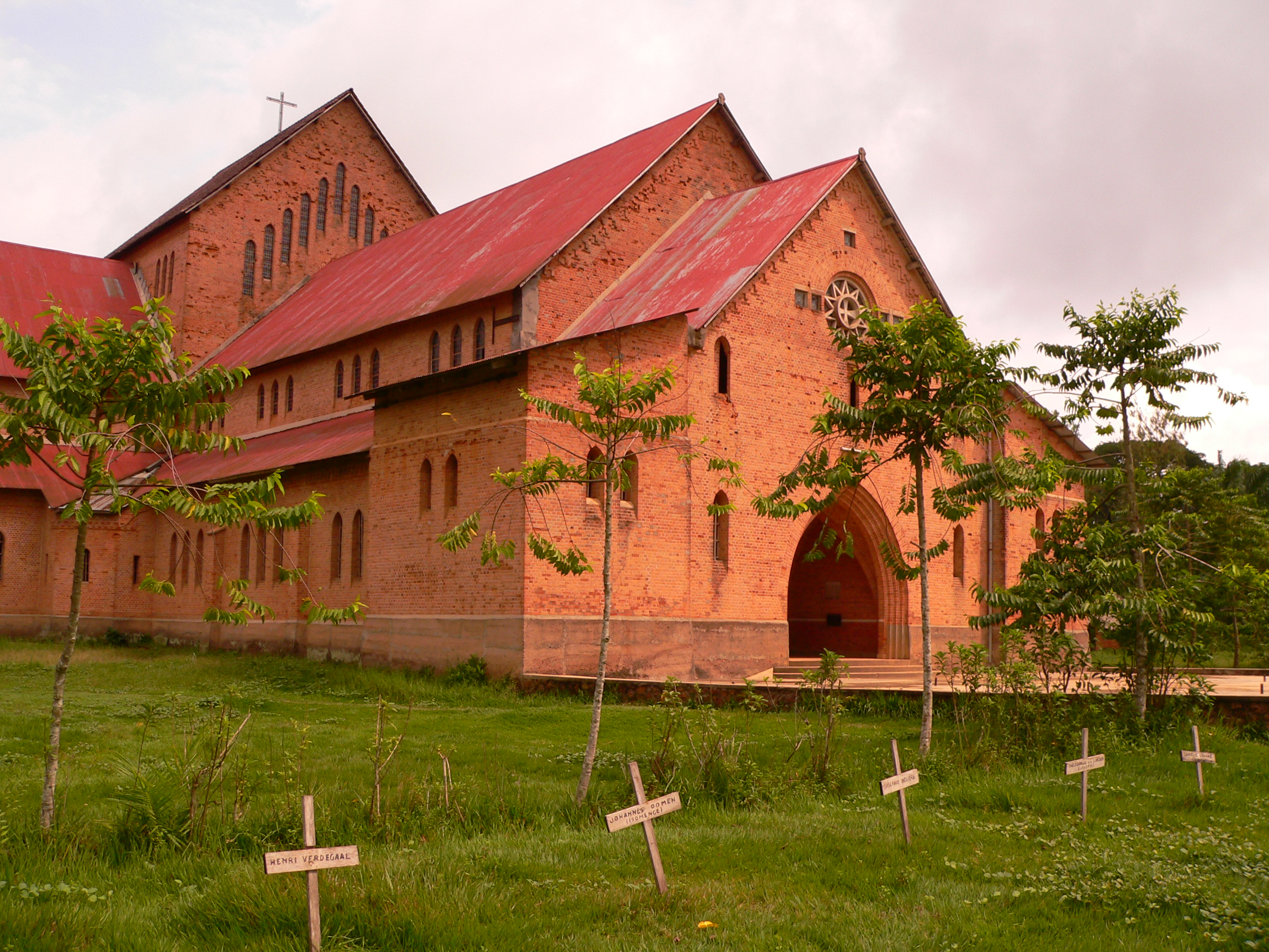 Basankusu Cathedral, Democratic Republic of Congo